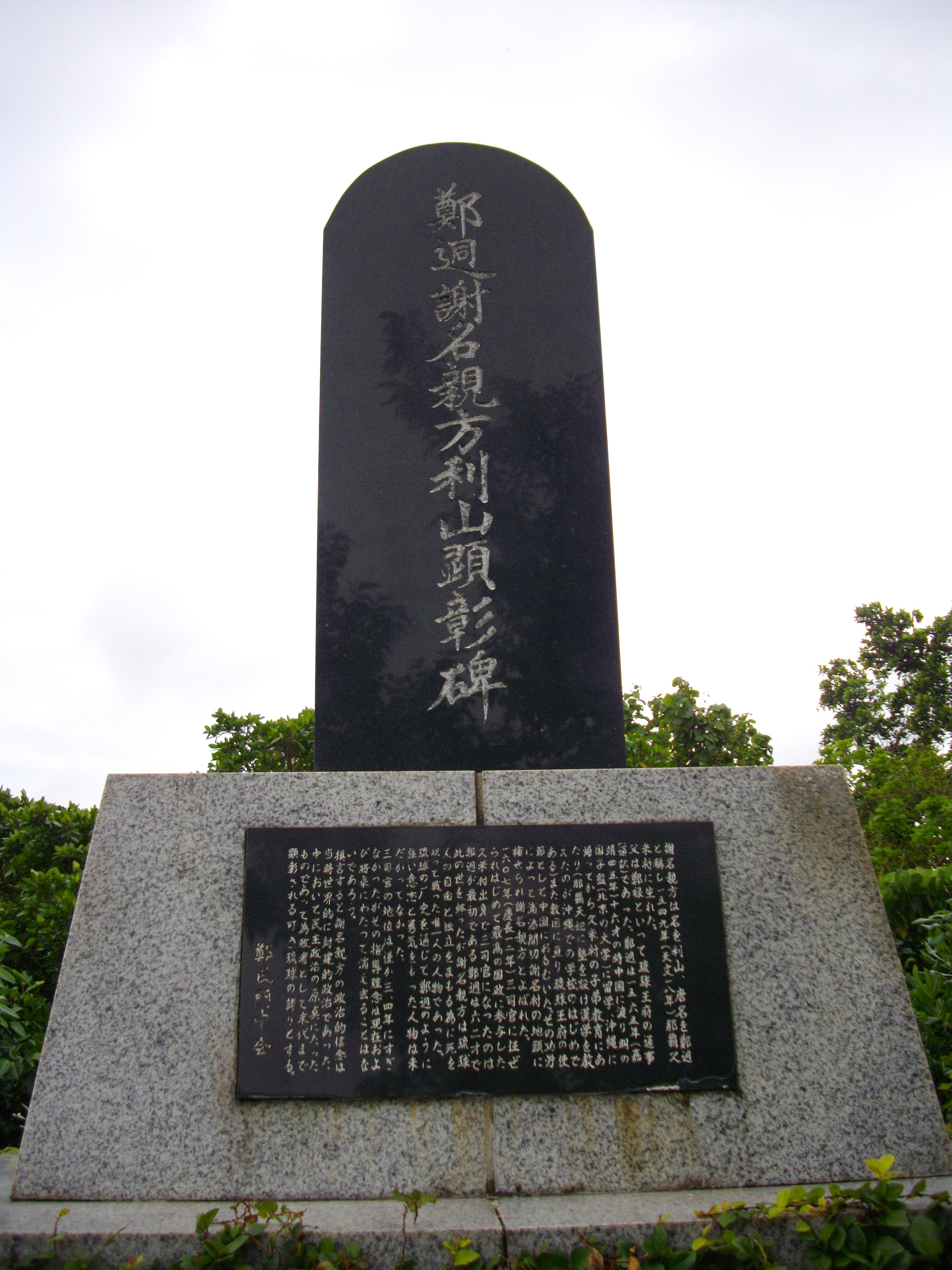 Monument to Jana Ueekata, Ryukyuan official who lost his head in 1611 for refusing to swear loyalty to Satsuma (Japan). Monument located in public park in Wakasa/Naminoue area of Naha, Okinawa. Photo taken myself (LordAmeth). Explanation of inscription: Tei Dō Rizan (鄭迵 利山) was ueekata (親方) of Jana (謝名). This is a honorary stele (顕彰碑, kenshōhi).